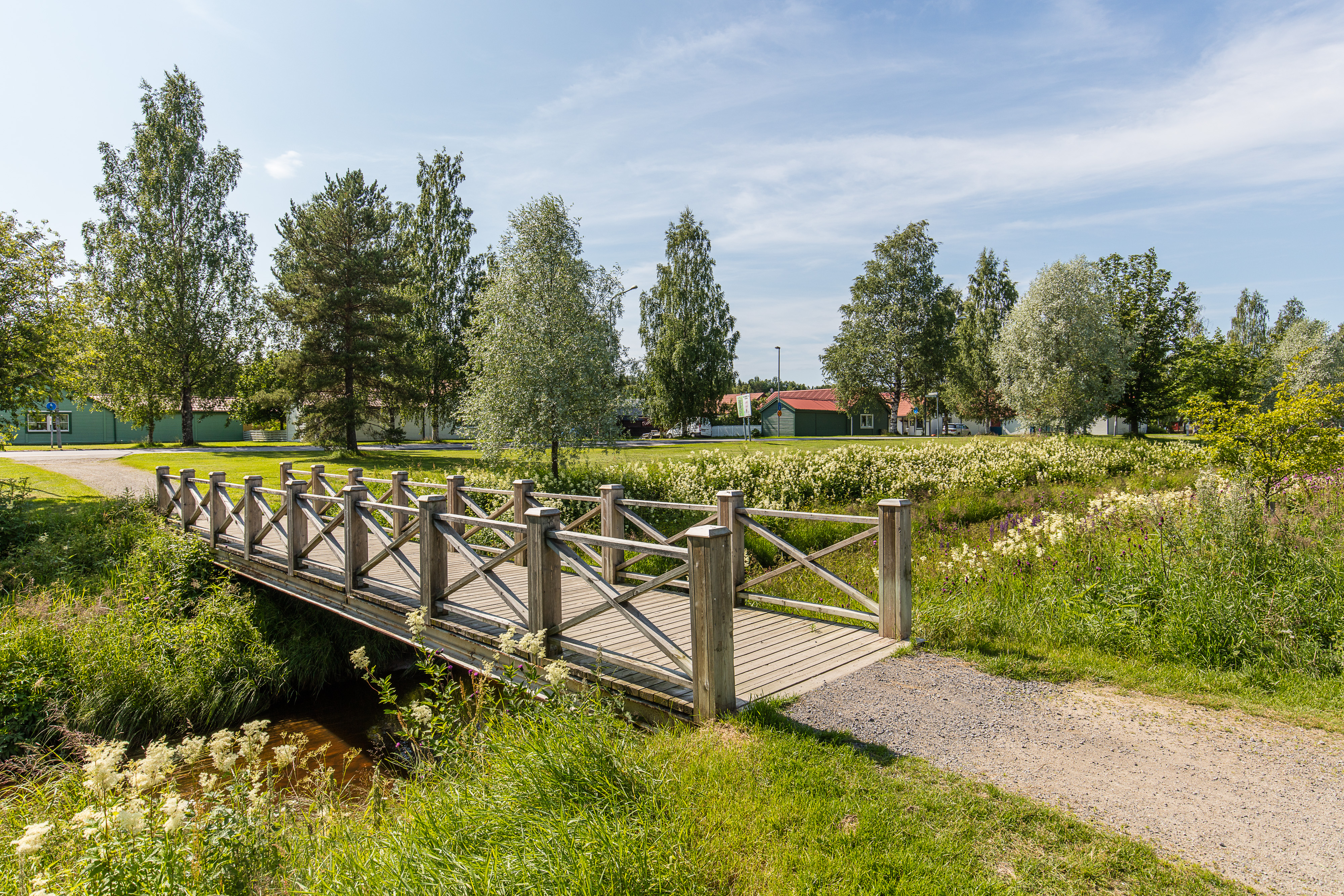 Bridge over Tvärån, near Rödäng in Umeå, Sweden